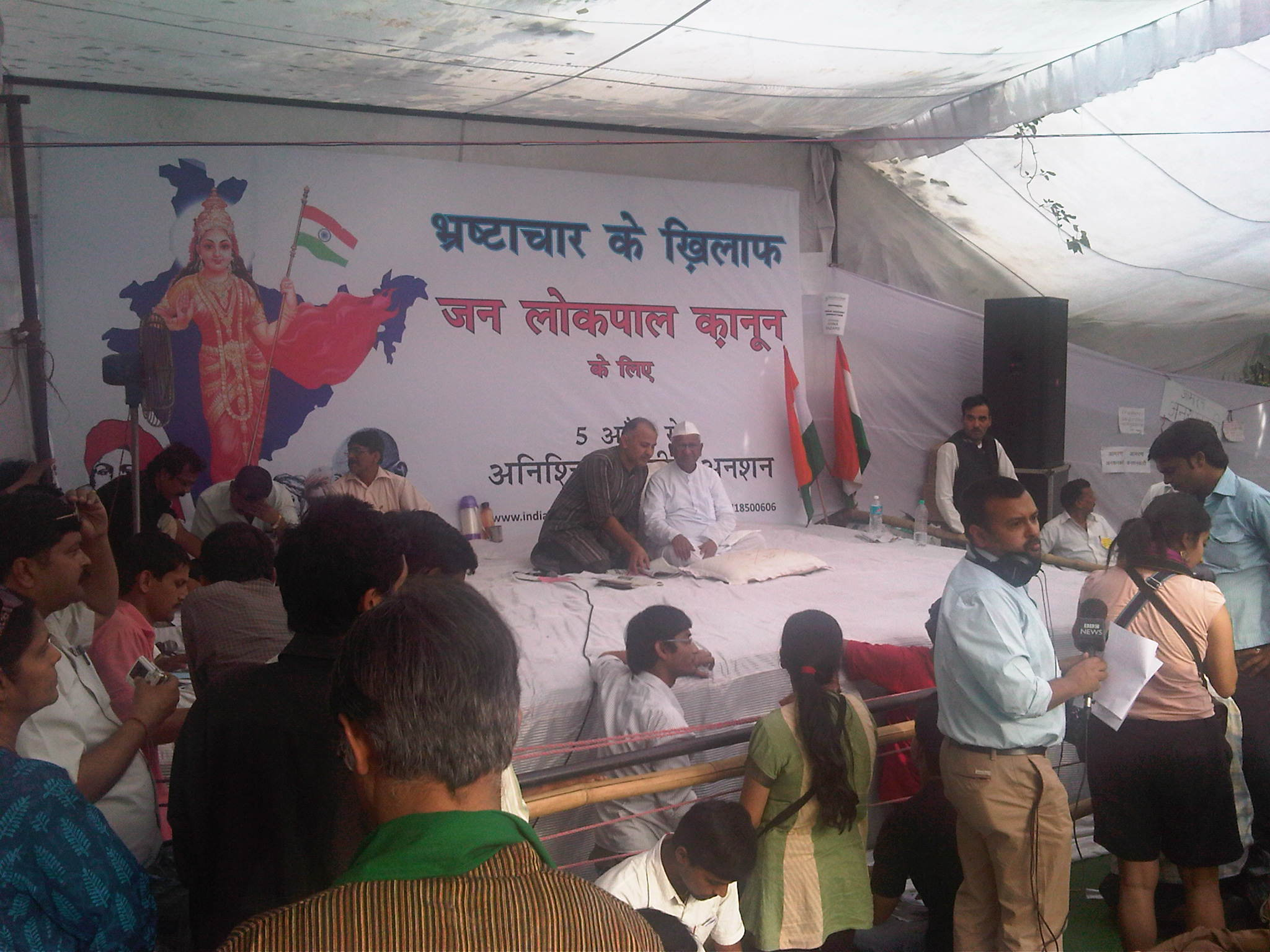 Anna Hazare on the 2nd day of his fast, 2011